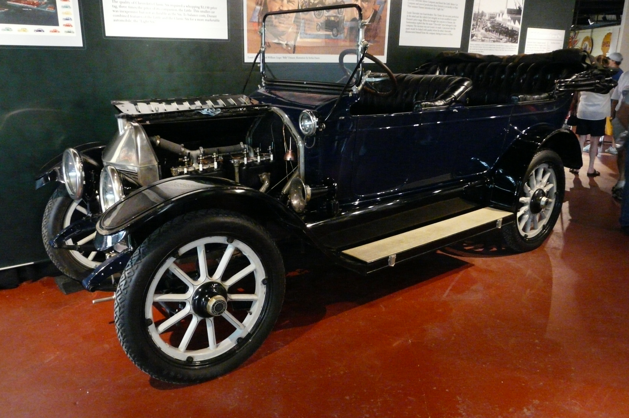 1912 Chevrolet Classic Six at the Alfred P. Sloan Museum, Flint Michigan